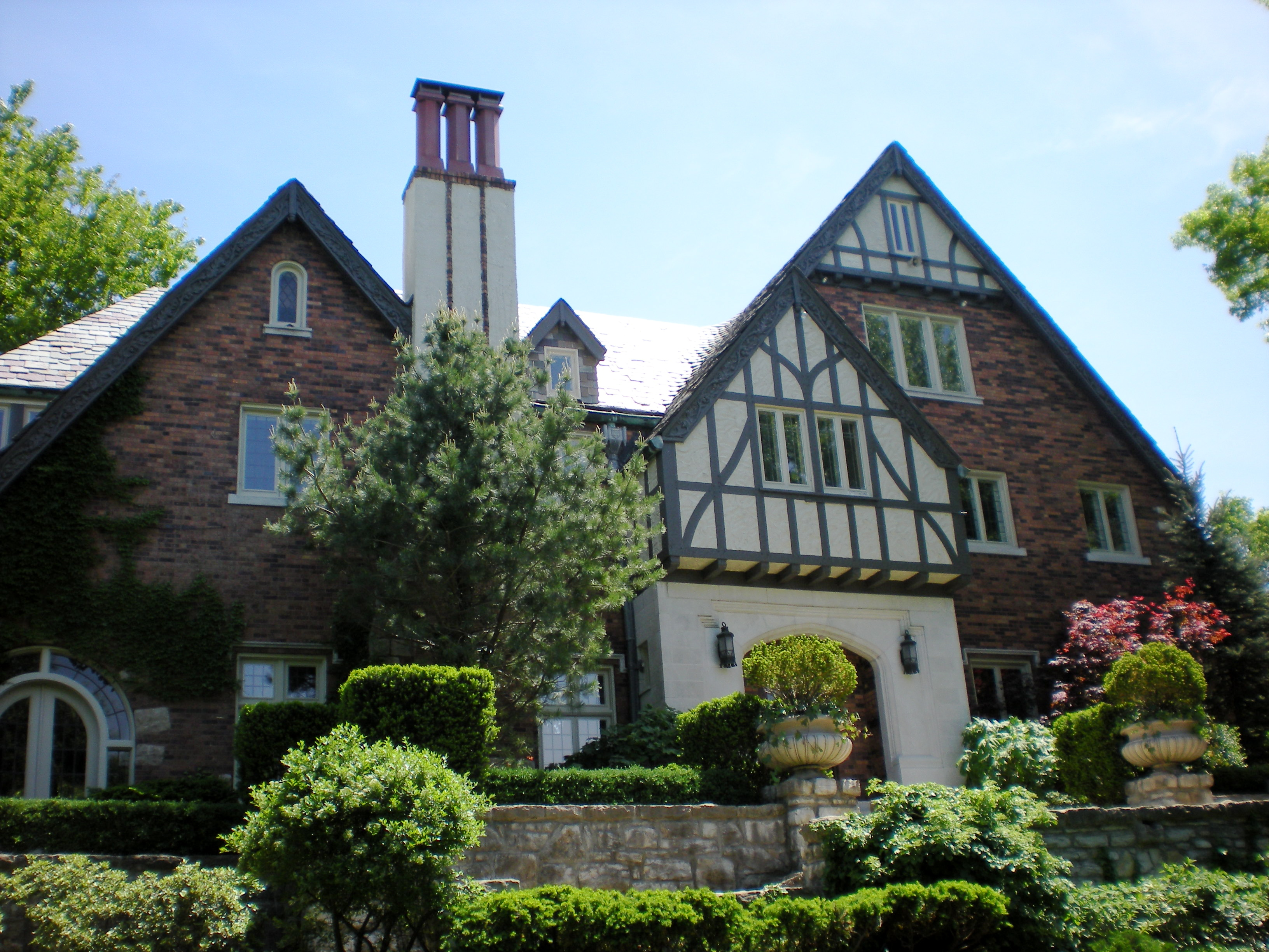 Typical house in the city of Mission Hills, Kansas